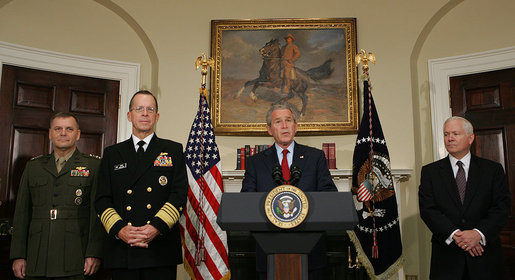 In the Roosevelt Room of the White House, President of the United States George W. Bush (at lectern) introduces Admiral Michael Mullen (second from left) and General James E. Cartwright (far left) as his nominees to be Chairman and Vice Chairman of the Joint Chiefs of Staff, respectively. Secretary of Defense Robert Gates stands alongside Bush.